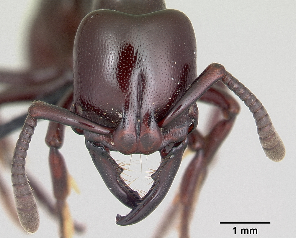 Head view of ant Plectroctena minor specimen casent0003067.